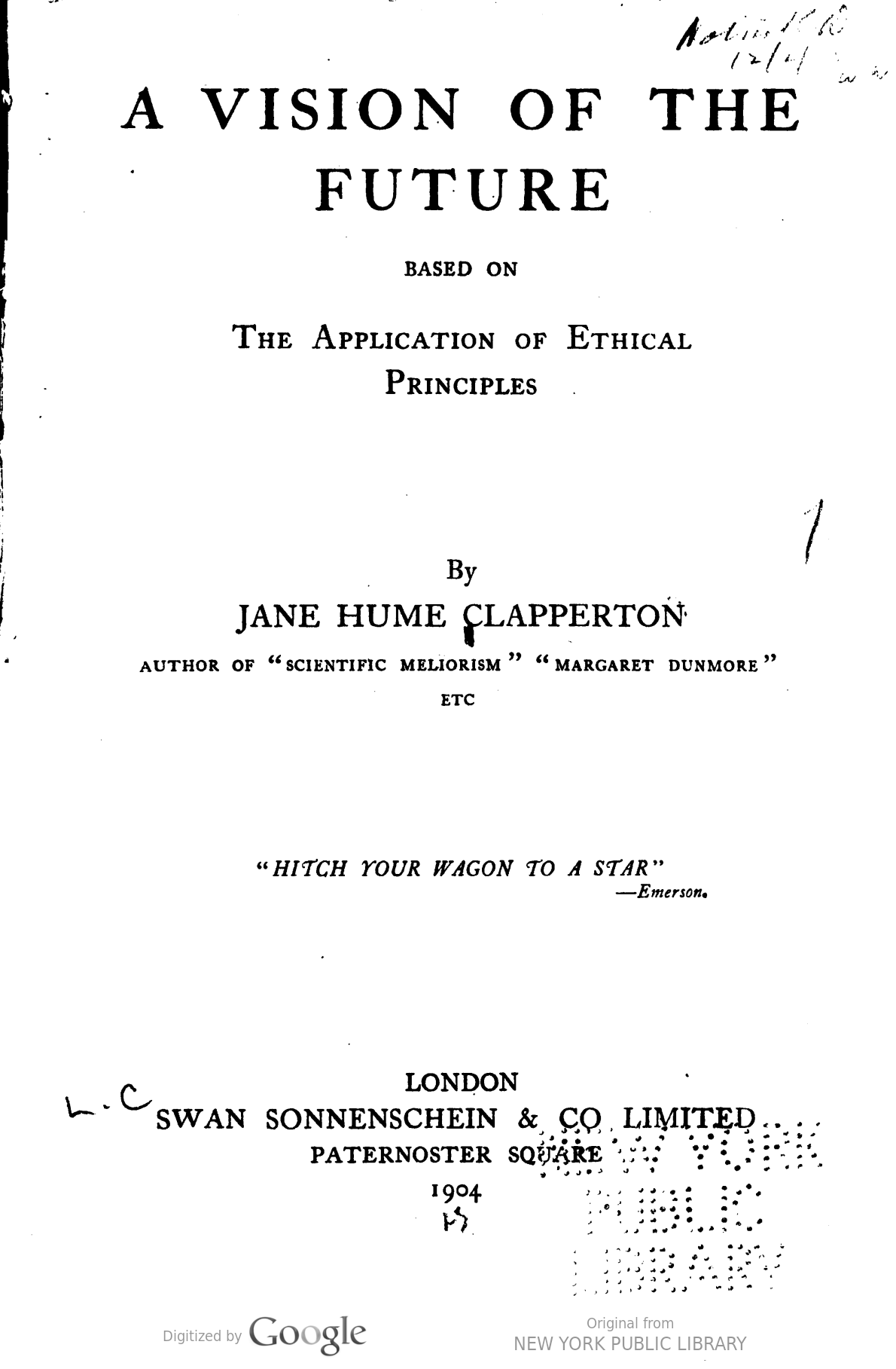 A Vision of the Future based on the Application of Ethical Principles by Jane Hume Clapperton